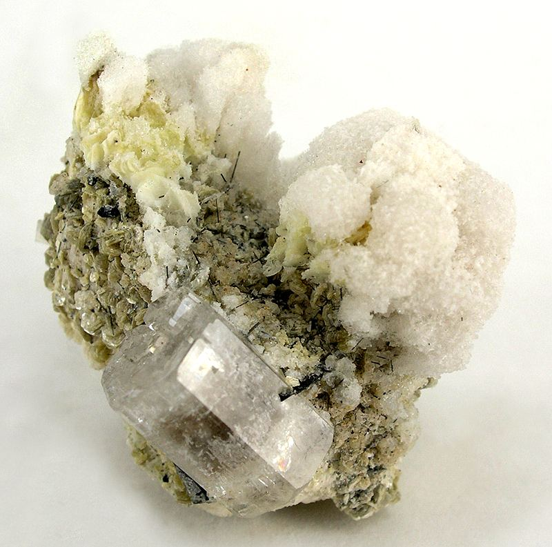 Beryl, Opal Locality: Erongo Mountain, Usakos and Omaruru Districts, Erongo Region, Namibia (Locality at ) Size: miniature, 4.0 x 3.8 x 3.6 cm Hyalite Opal on Goshenite Beryl This specimen is notable both for the doubly-terminated goshenite and also for the richness of the hyalite opal, which glows intensely in ultraviolet light and is quite rare from here.